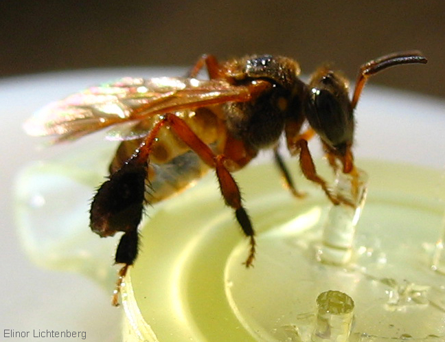 Frieseomelitta varia (stingless bee) forager collecting sugar water from an artificial feeder